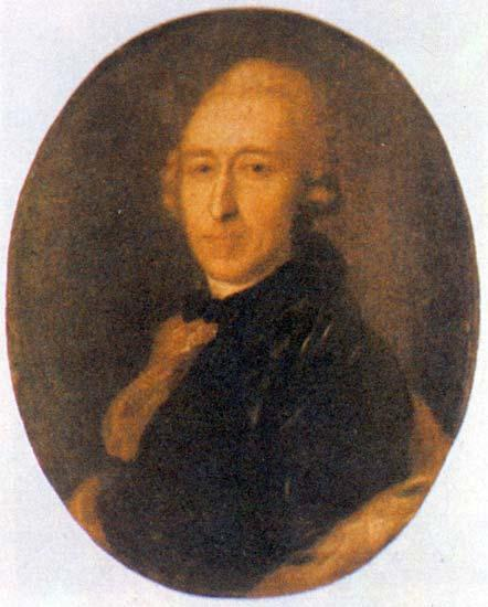 Prince Dmitry Trubetskoy (1724-1792)